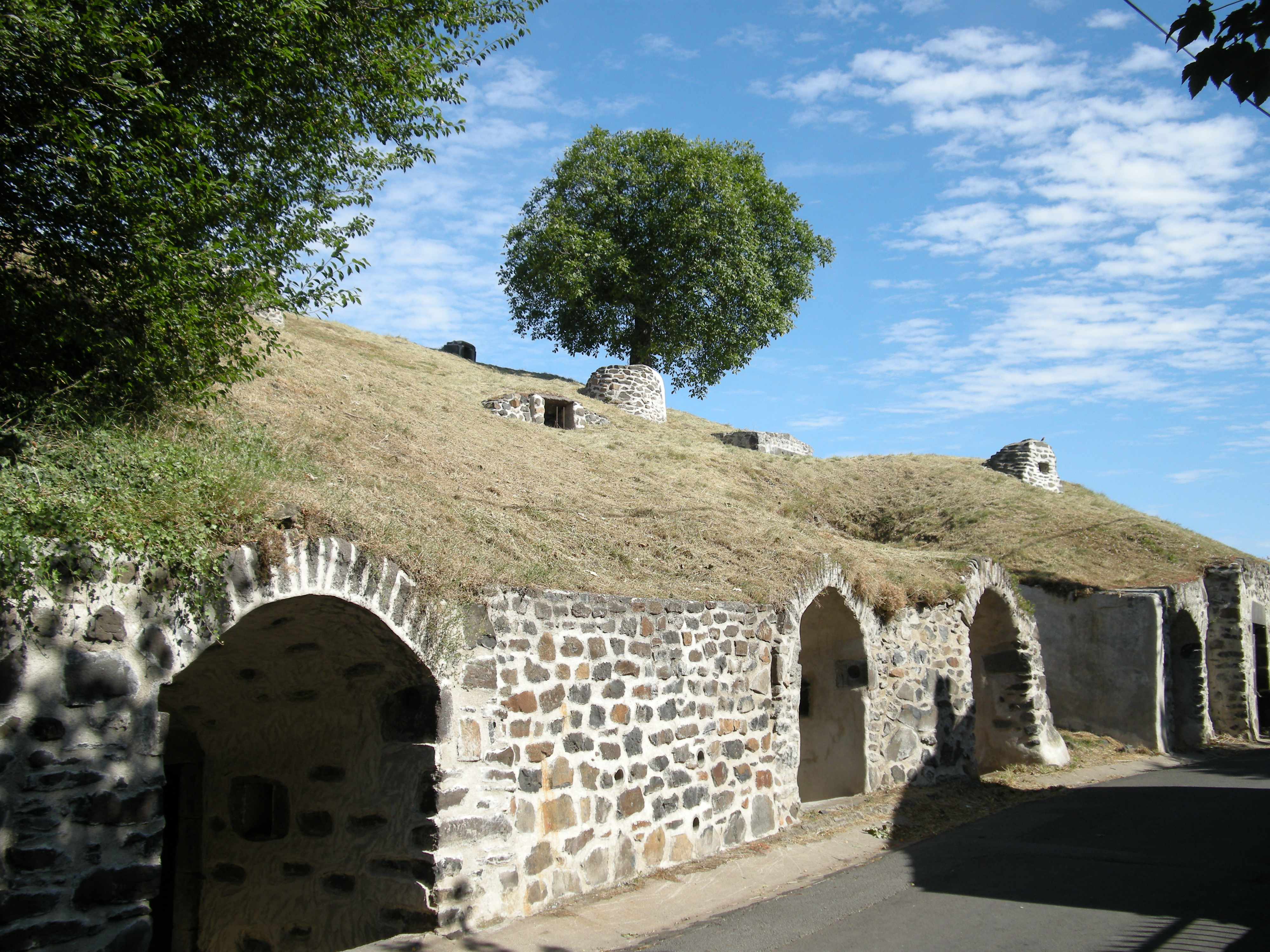 Cellar street in Châteaugay, Puys de Dôme (France).